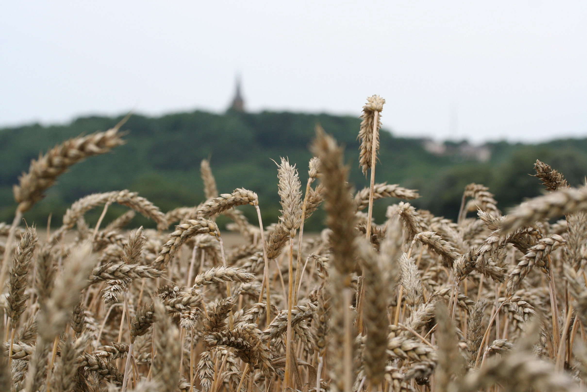 Wheat field in the Netherlands